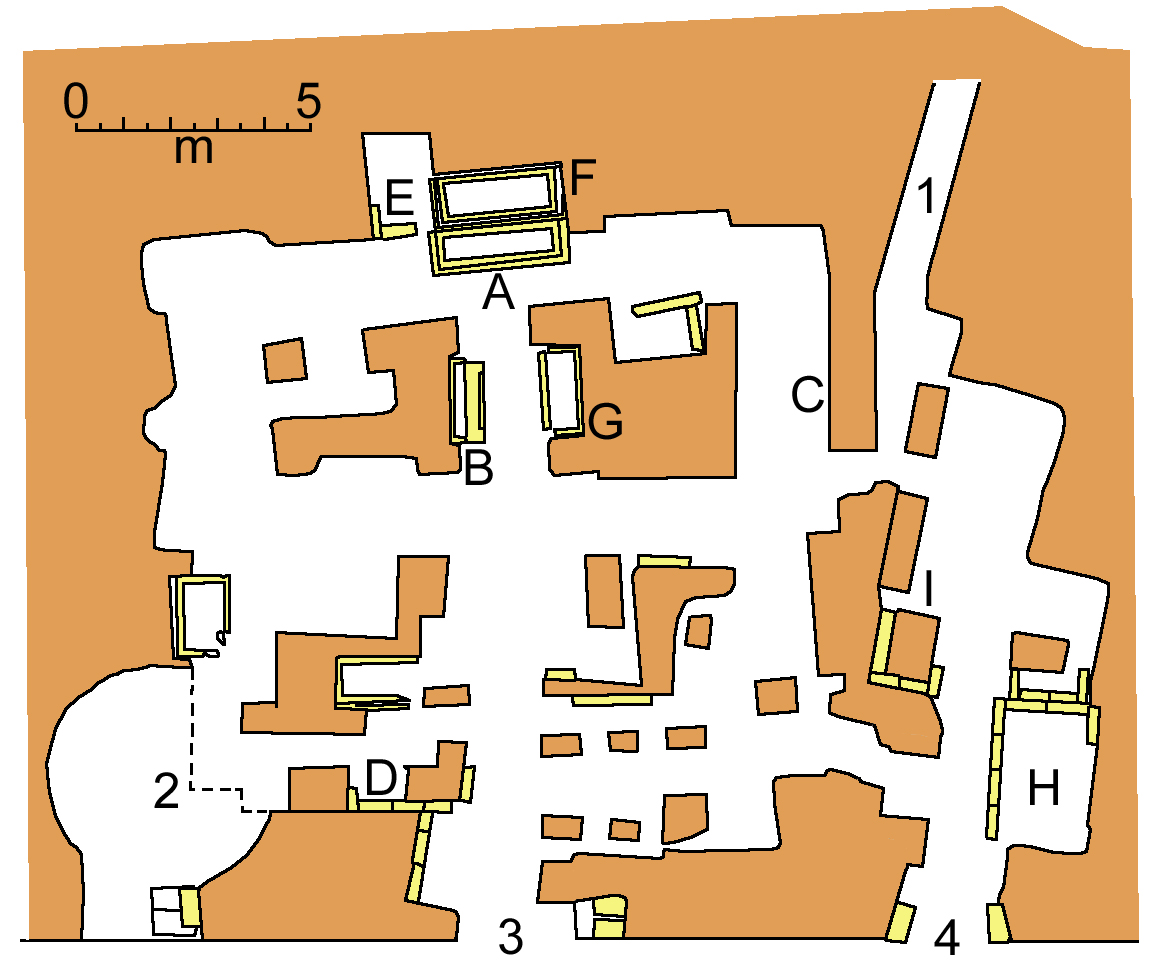 Map of the scipio's tumb in Rome, via Appia. 1 is the old entrance, 2 is a "calcinara", 3 is the amin entrance, 4 is the entrance to the new room. Letters from A to I are the sarcophagi with incriptions (for a complete list see it.Sepolcro degli Scipioni)